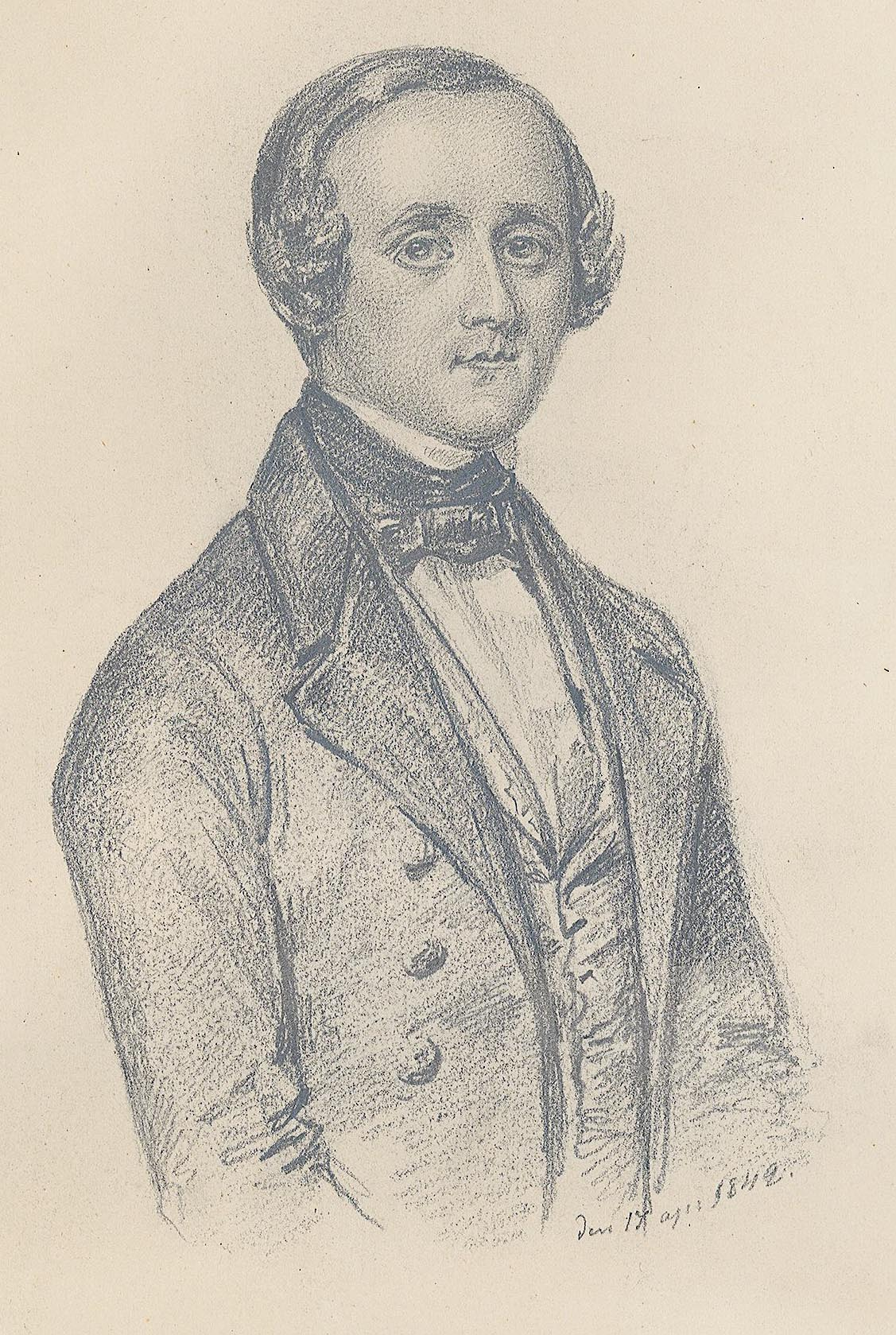 Olof Strandberg. After a drawing by Maria Röhl 1842.